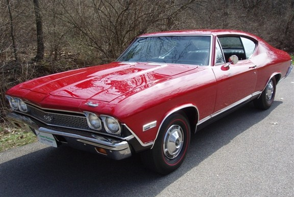 1968 Chevelle SS396